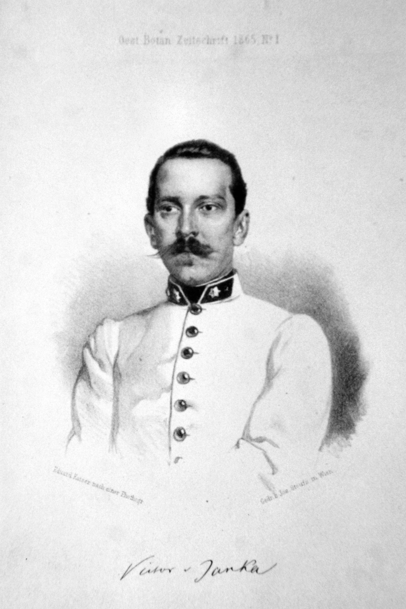 Viktor Janka von Bulcs (1837-1890), österreichischer Offizier und Botaniker. Lithographie von Eduard Kaiser, Beilage zur österr.. Botanischen Zeitschrift 1865, Nr.1